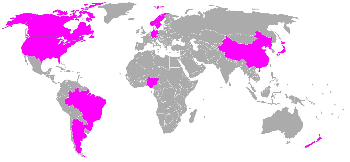 Map, showing countries which participate in women's football at the 2008 Summer Olympics